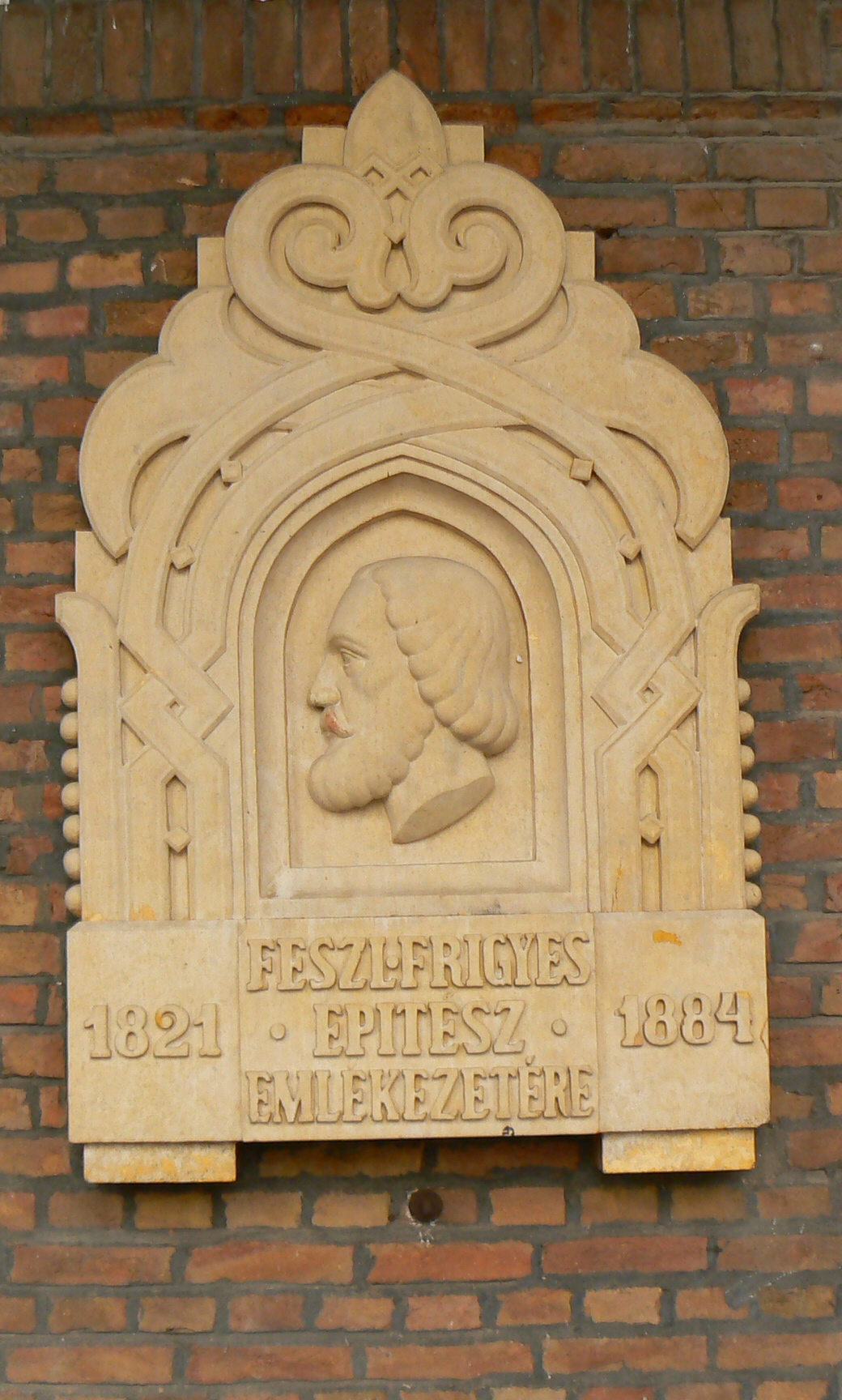 Béla Ohmann sculptor Frigyes Feszl architeckt 1930. Szeged, Dóm